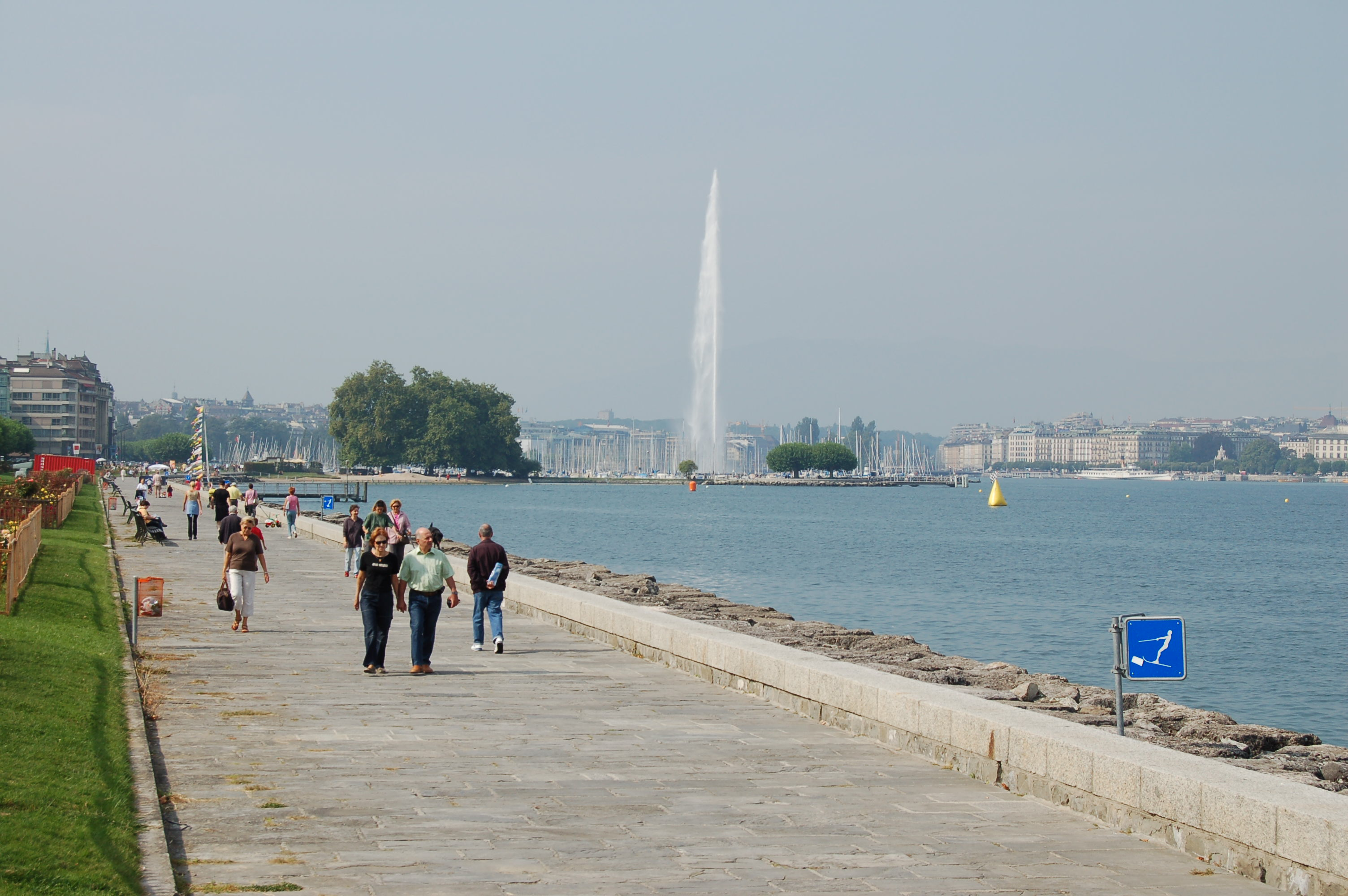 Geneva